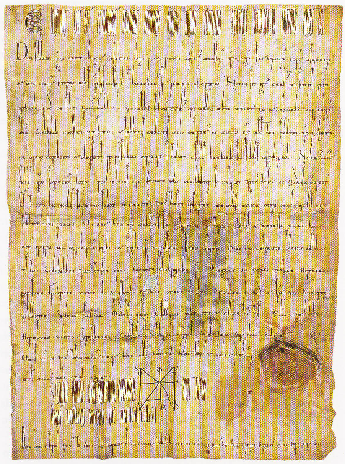 Town privileges for Utrecht (Netherlands) of 2 june 1122, in which Henry V, Holy Roman Emperor, confirms these privileges earlier given by Godebald, bishop of Utrecht